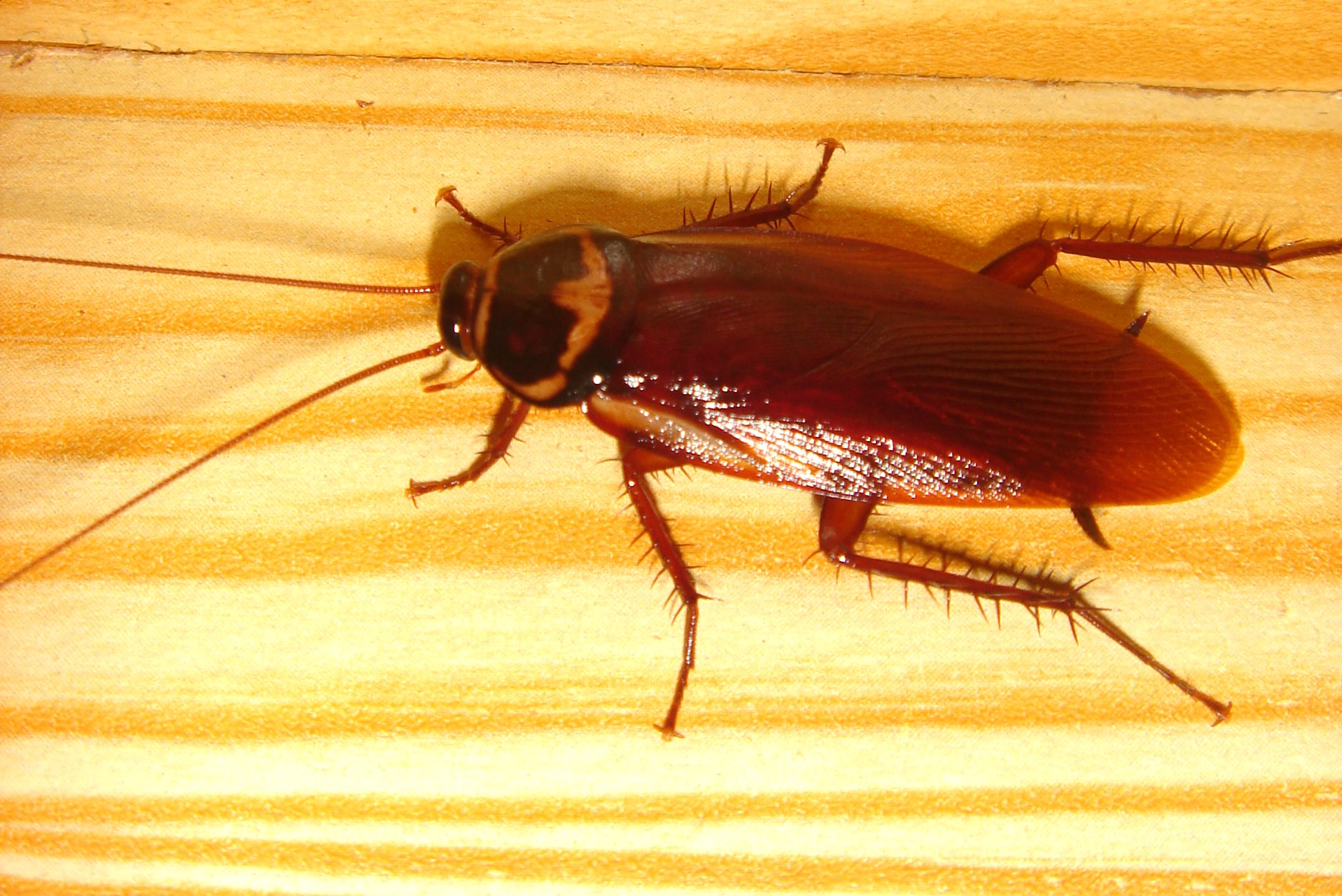 Australian cockroach